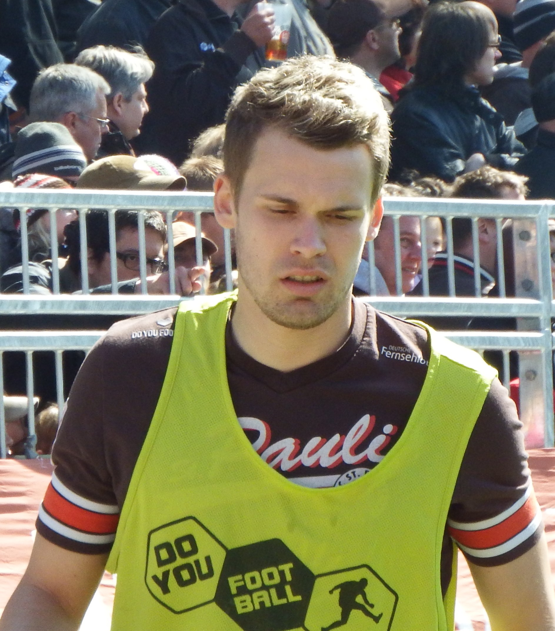 Cristopher Buchtmann as Player from FC St.Pauli